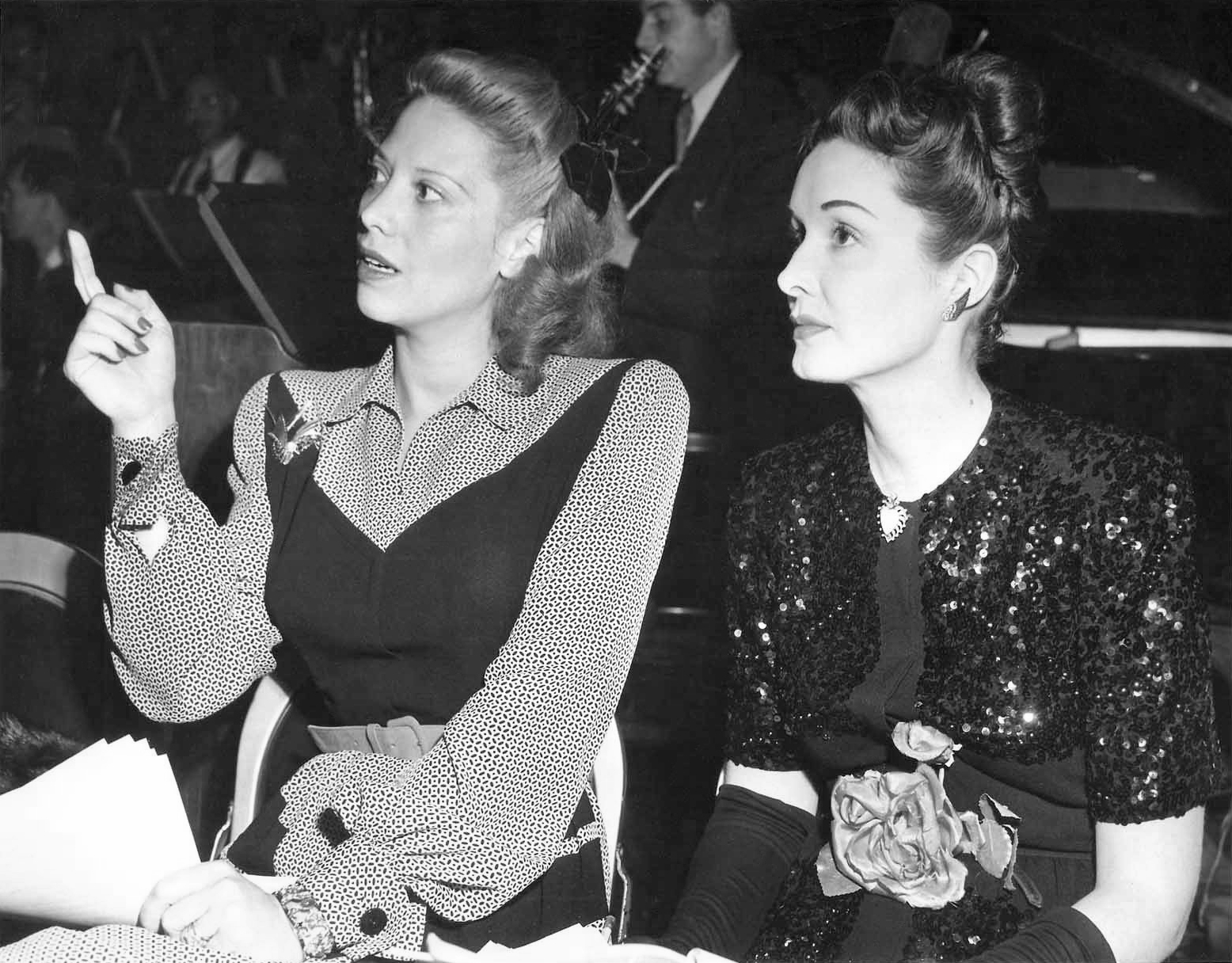 Photograph of Dinah Shore and Gail Patrick in the CBS studios during a rehearsal for Lady Esther Screen Guild Theater. The only documented occurrence of their working together on the Screen Guild show was the broadcast February 12, 1945, "Belle of the Yukon" (more information).